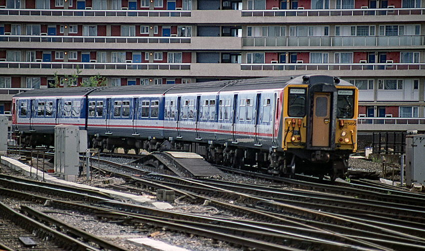 BR class 455/8 5856 approaching Waterloo, consisting of vehicles 77689+62764+71692+77690 in Network SouthEast livery. Scanned from a Kodachrome 35mm slide.